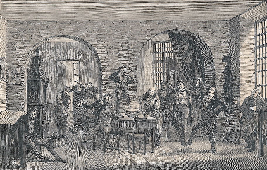 Scene from the debtors prison in Copenhagen in the first half of the 19th century. Scene fra Gældsfængslet i København i første halvdel af det 19. århundrede. Tegnet af Knud Gamborg, stukket af P.H. Hansen.